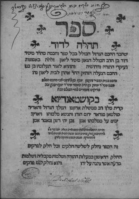 Title page of the 1577 Hebrew book written in Italy and printed in Constantinopol "Thila LeDavid" by Rabbi David Ben Yehuda Messer Leon